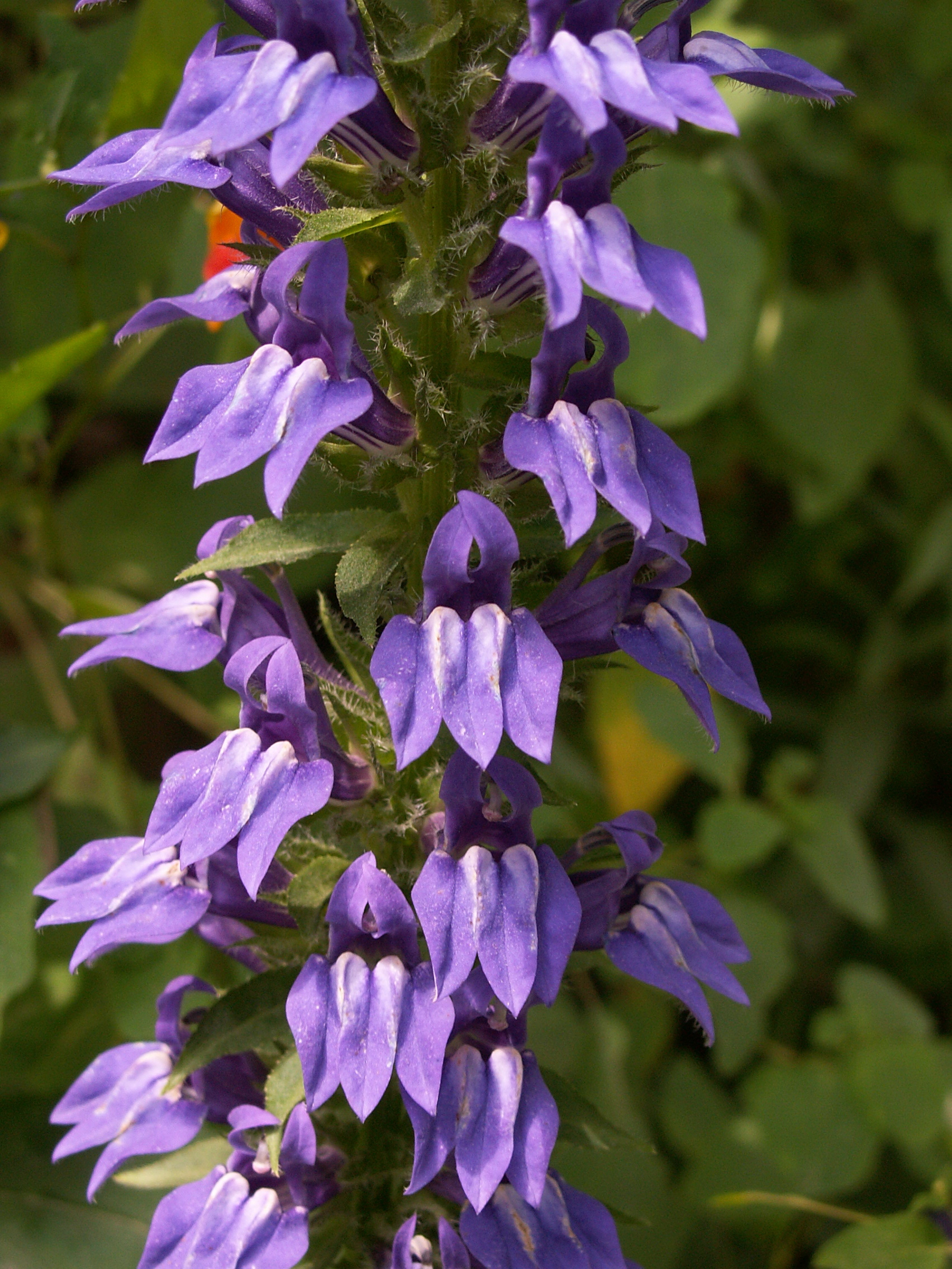 Great Lobelia (Lobelia siphilitica) blooming in a roadside ditch in Cranberry Township, Pennsylvania